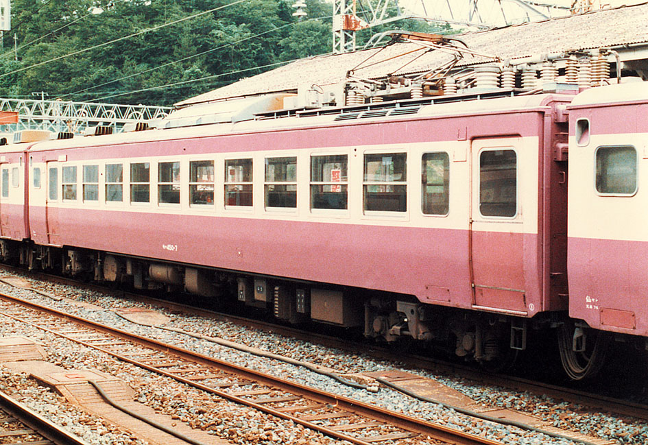 JNR 451 series EMU car MoHa 450-7